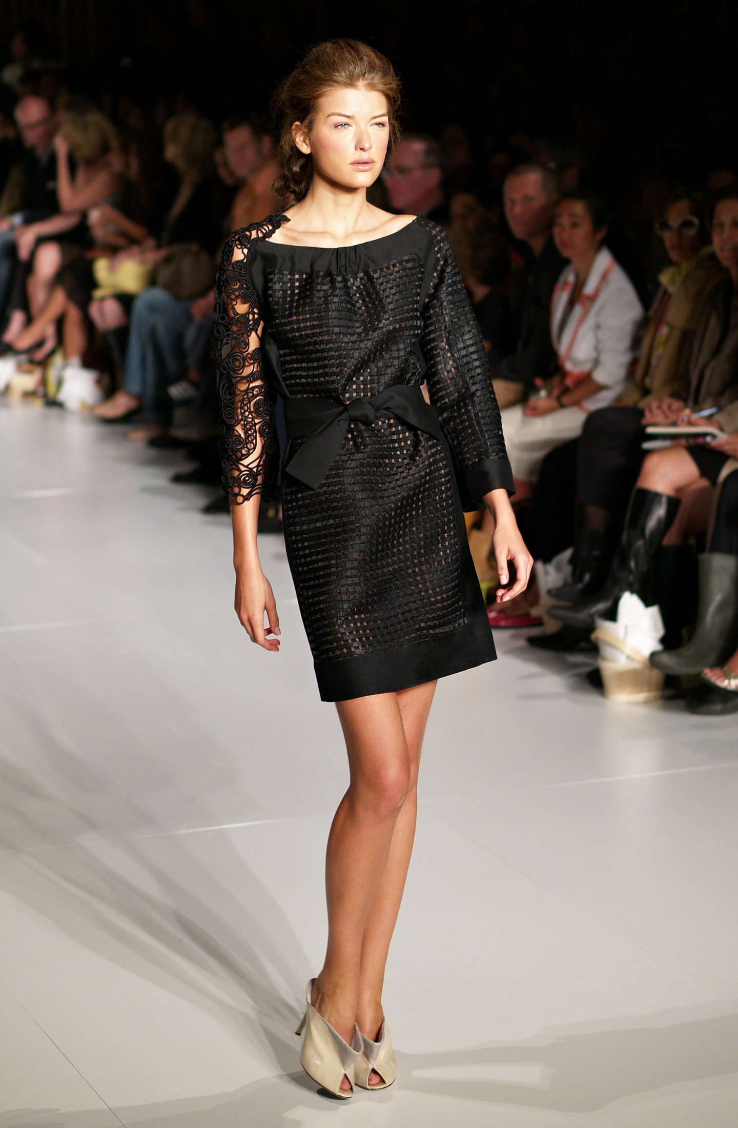 Nataliya Gotsiy modeling in Cynthia Rowley spring 2007 show, New York Fashion Week.